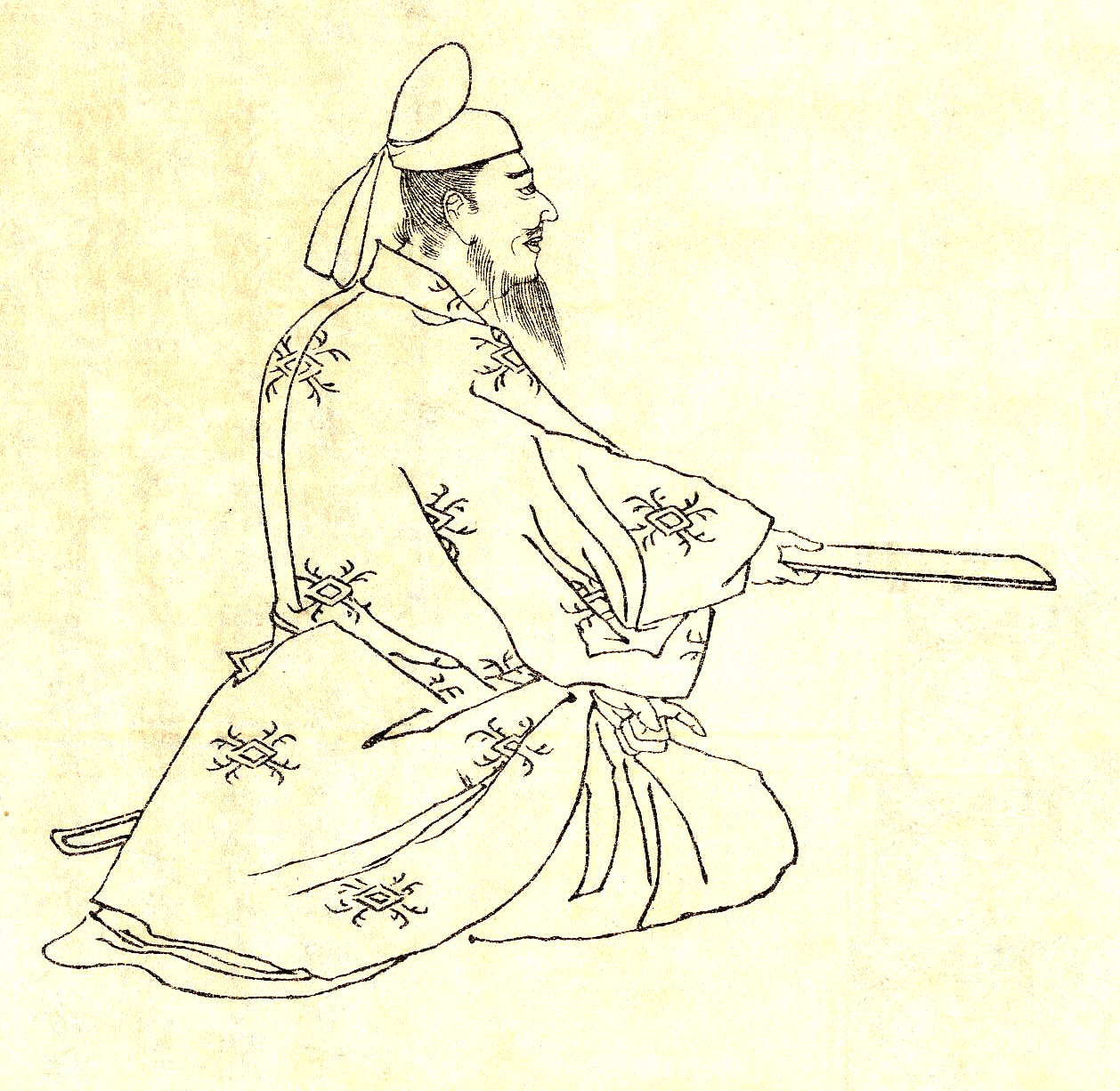 Miwa no Takachimaro（三輪高市麻呂） was a Japanese court noble in Asuka period.